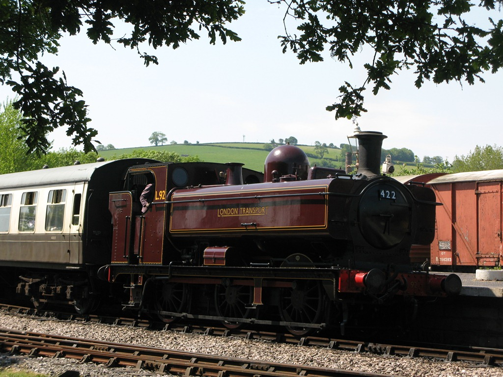 Preserved London Transport 'pannier tnak' L92 at Totnes on the South Devon Railway with a tain for Buckfastleigh.